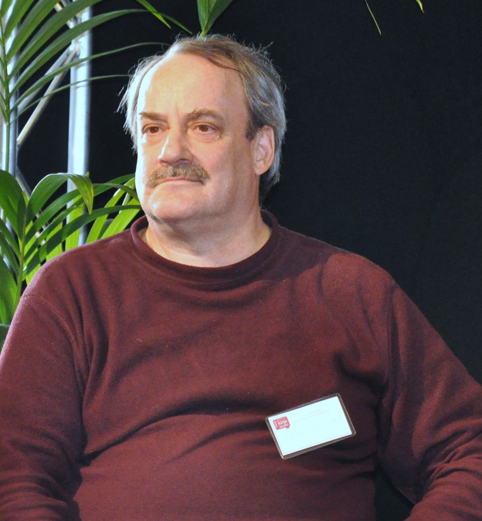 Finnish translator and writer Jukka Mallinen at the Turku Book Fair 2009.